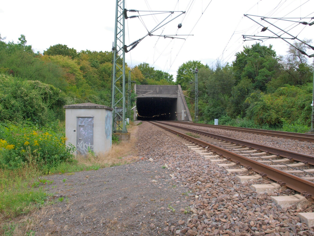 North-west entrance to Pfingstberg Tunnel, Mannheim-Stuttgart high-speed railway line